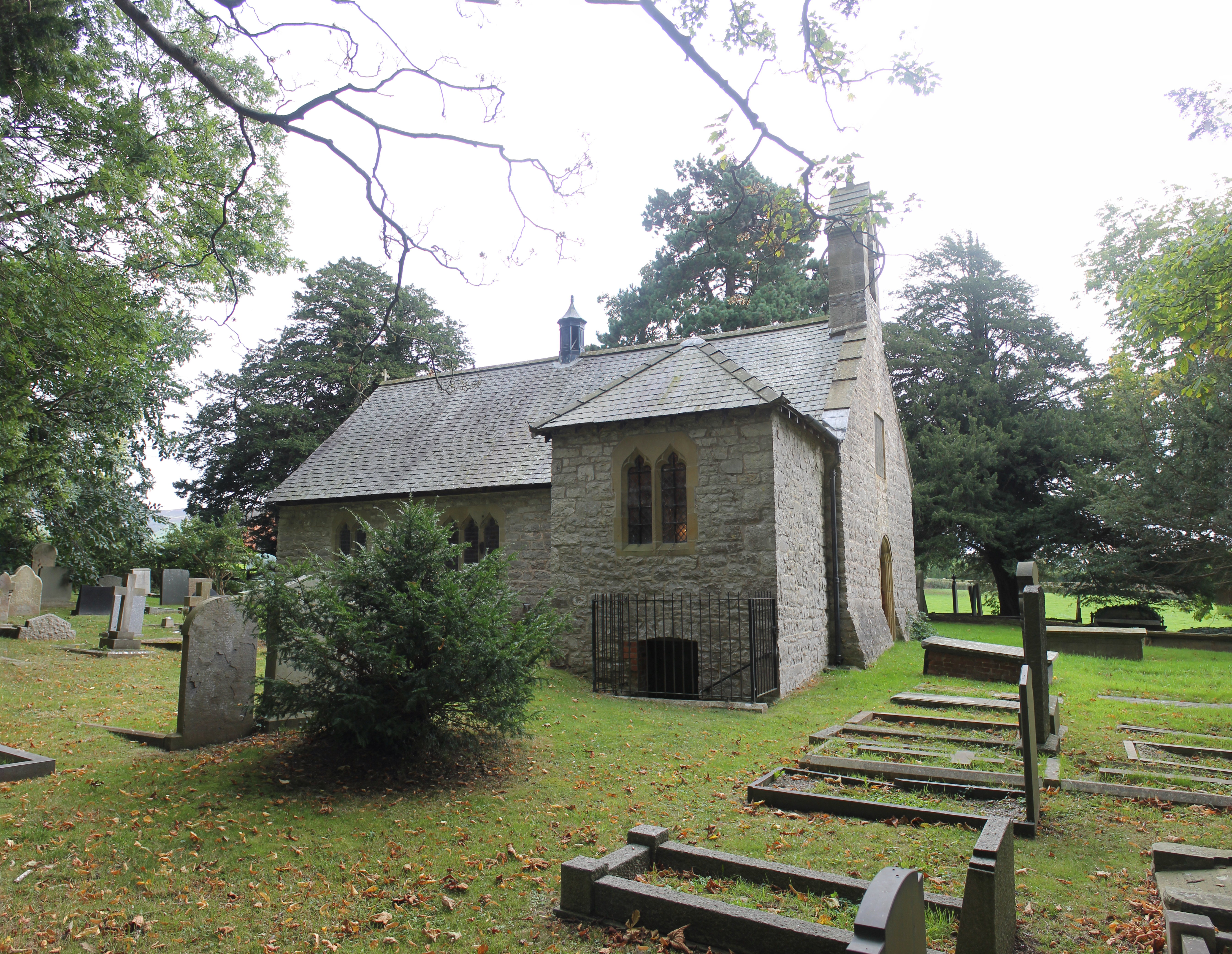 St Hychan's Church, Rhewl, near Ruthin, Denbighshire; first mentioned in 1254. Grade II*. Date Listed: 19 July 1966. Cadw Building ID: 787.